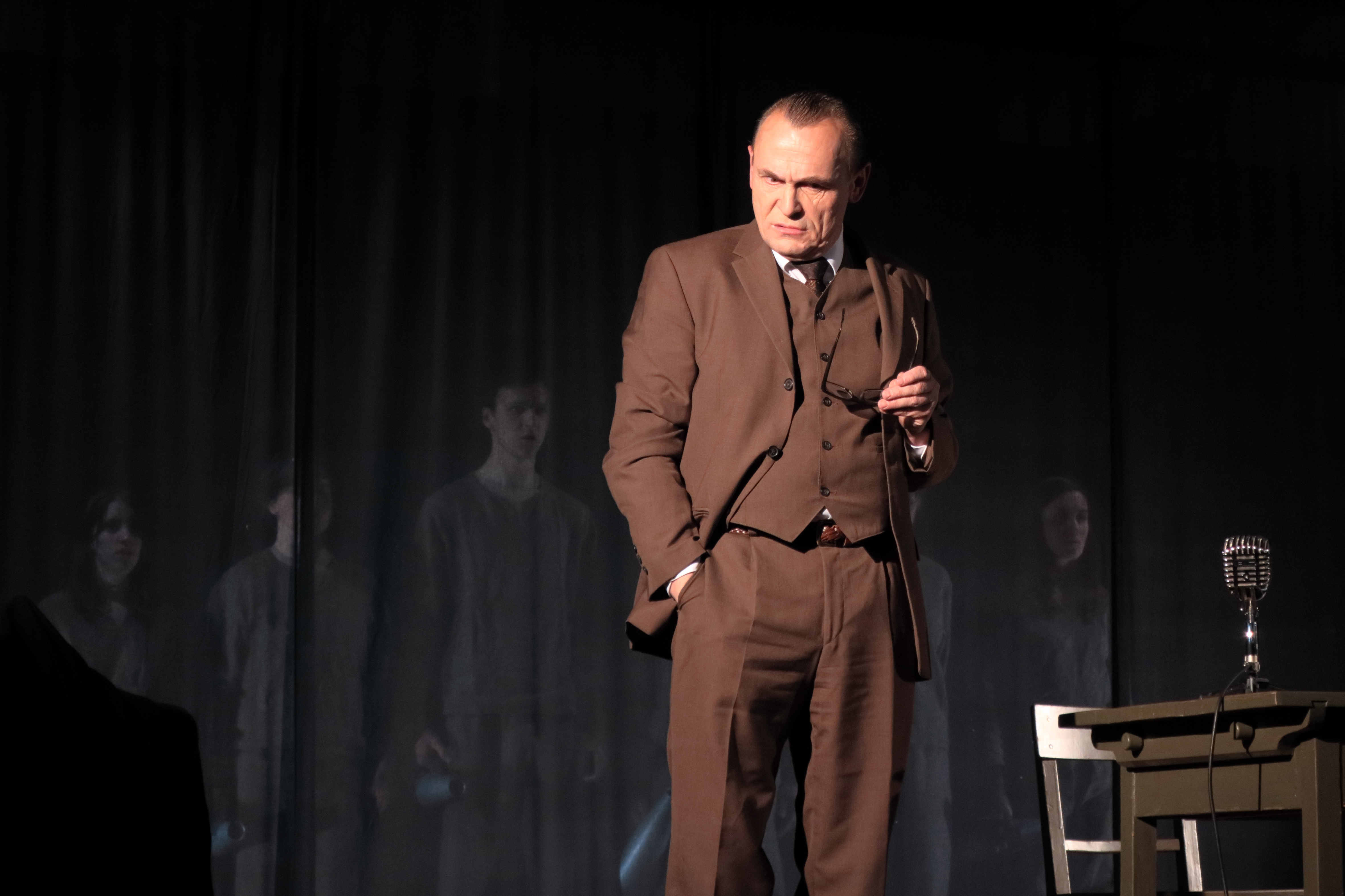 The Austrian actor, singer and reader Franz Froschauer performs Adolf Eichmann in the play »Eichmann« during a performance in the parish church in Zipf, Austria. The six-person choir is recognizable through a translucent black stage backdrop.